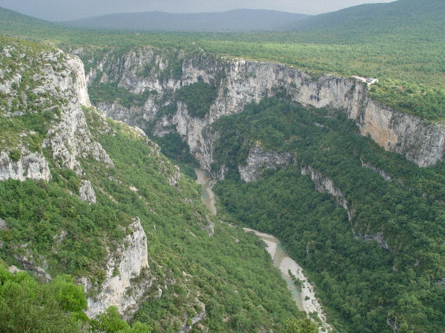 The Verdon river from the Maline, on the facing edge, the Cavaliers.